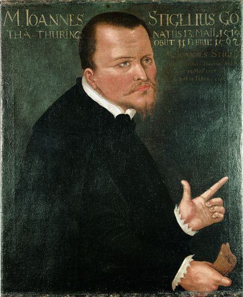 Johann Stigel (1515-1562) German poet and rhetorician